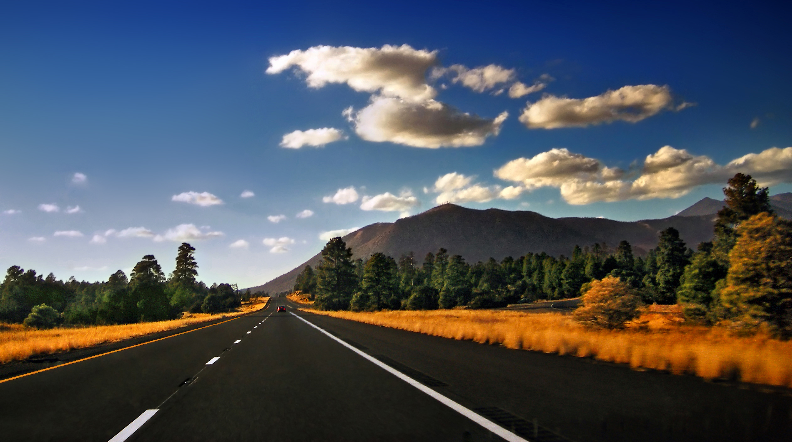 Interstate 40 West, north-central Arizona, near Flagstaff.